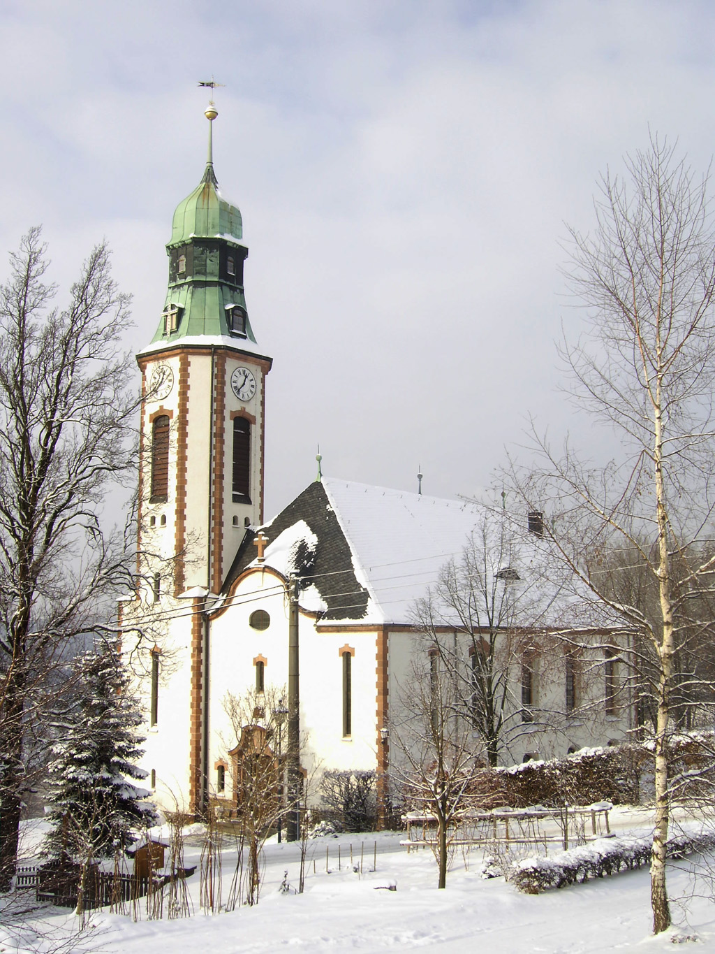 The church in Pobershau in winter, seen from south-east.